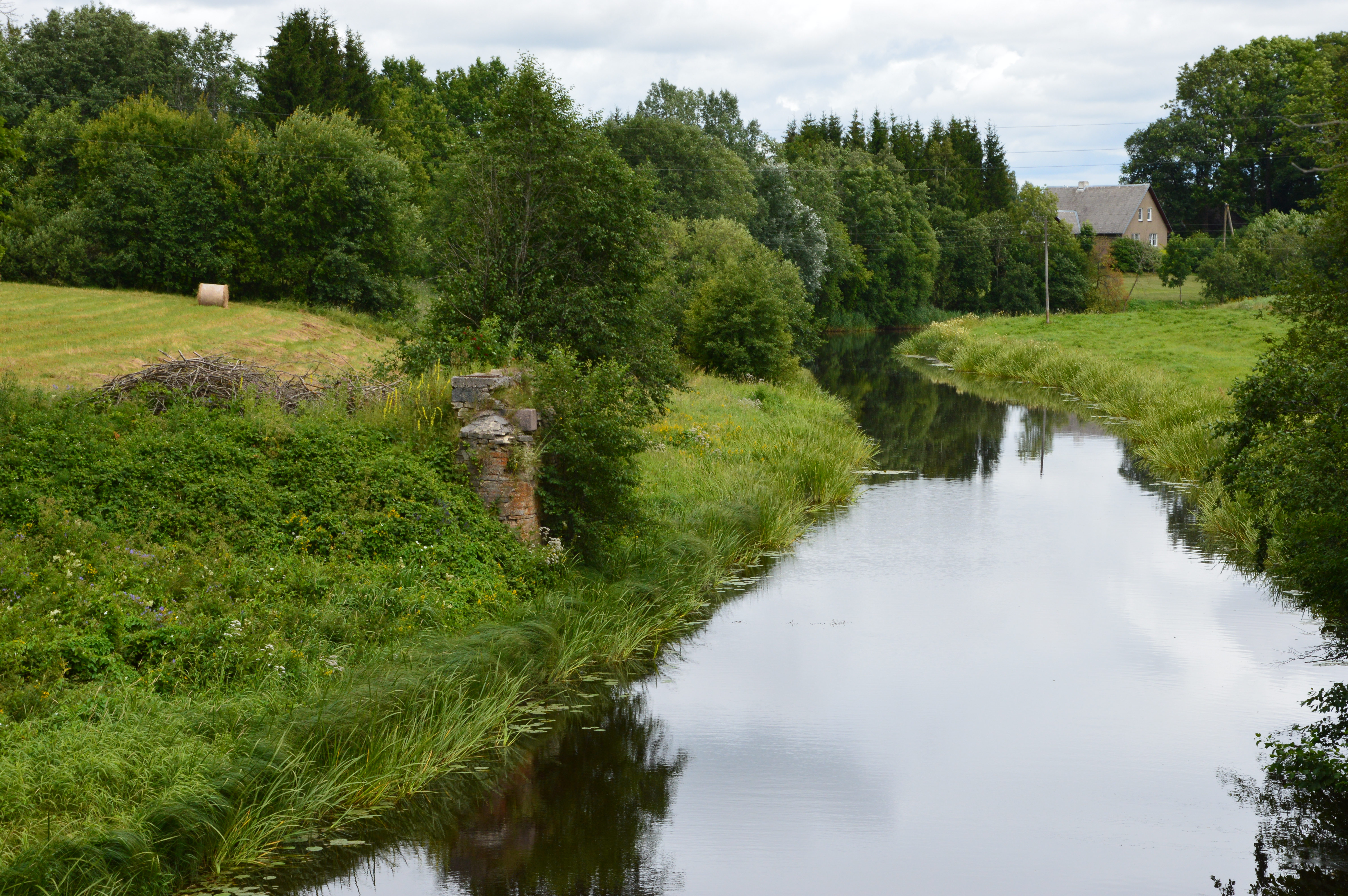 Velise River. Location of old bridge.